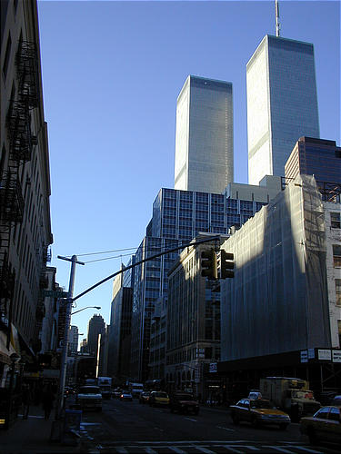 World Trade Center viewed in the morning, New York City, 2001.